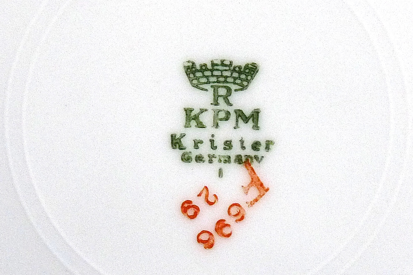 Krister porcelain, trademark, Germany 1951-1971